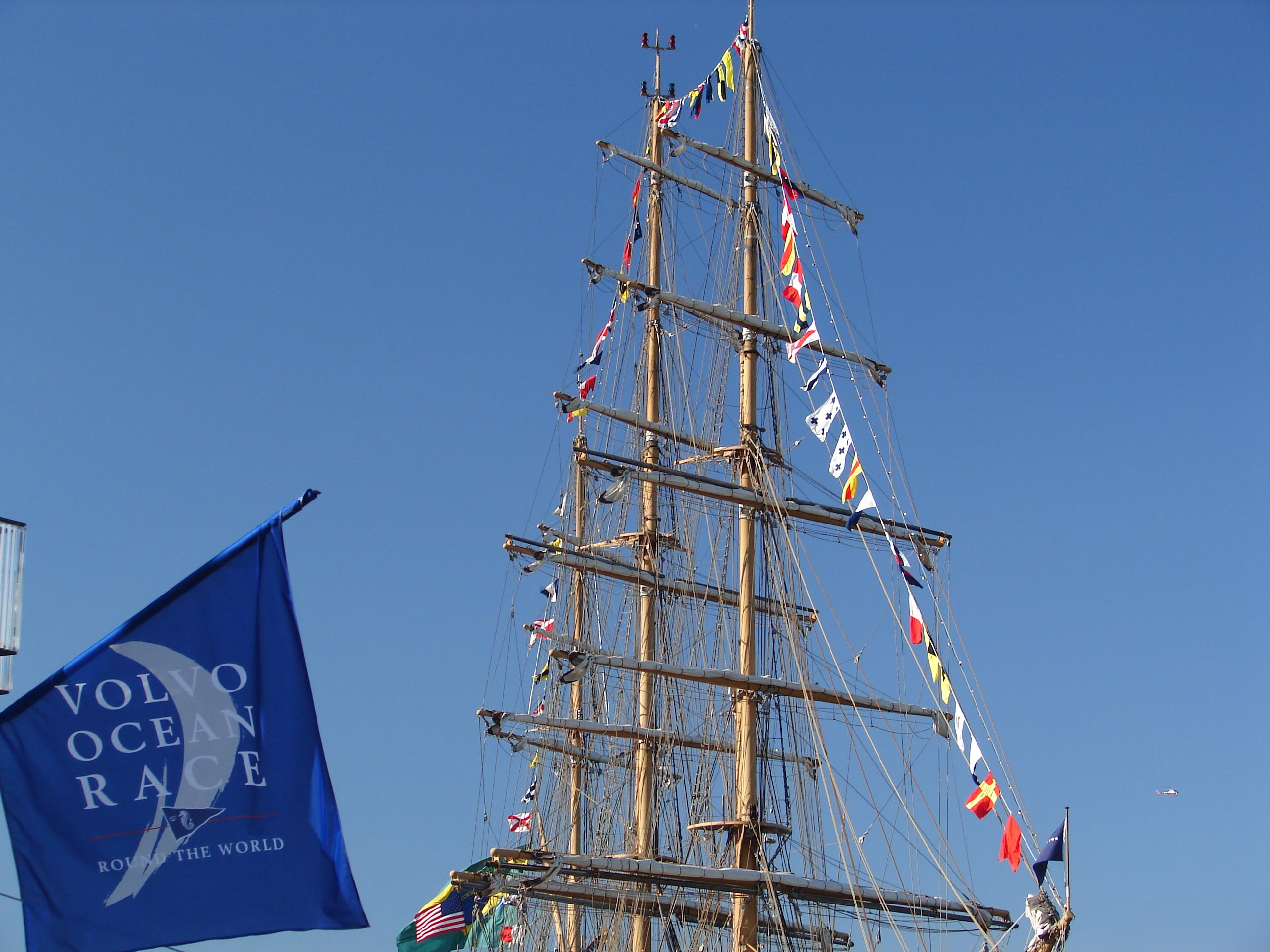 Volvo Ocean Race flag - 2006 at inner Harbor, Baltimore